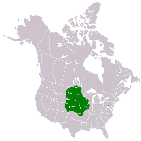 A range map showing the distribution of the Regal Fritillary, (Speyeria idalia)